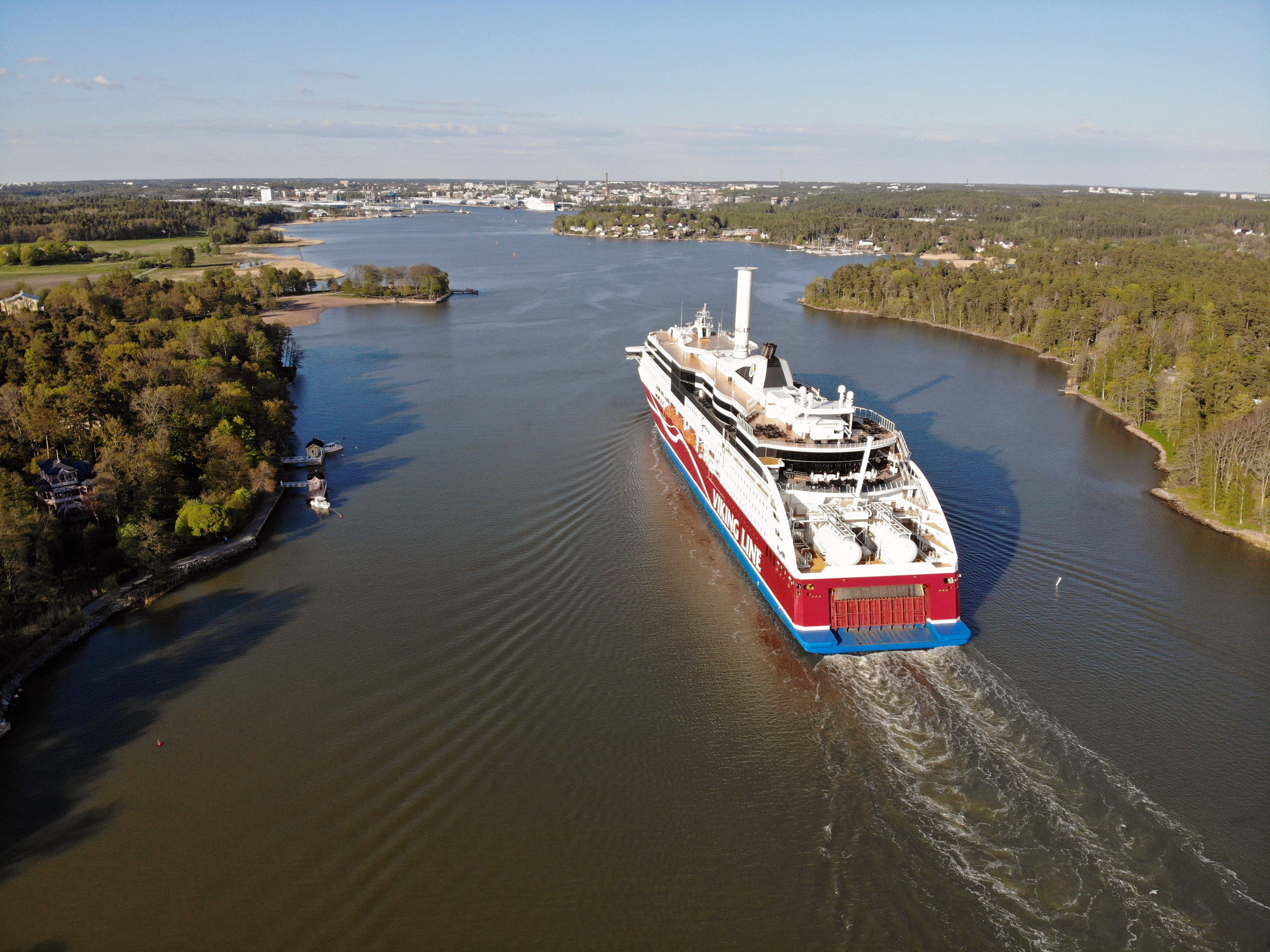 Viking Grace heading towards Port of Turku.